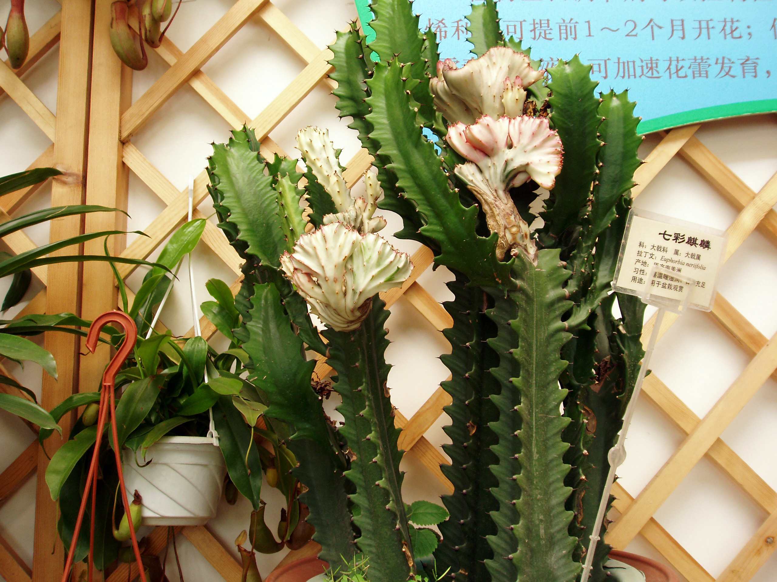 Euphorbia lactea fa. cristata, clorophyll lacking form, grafted